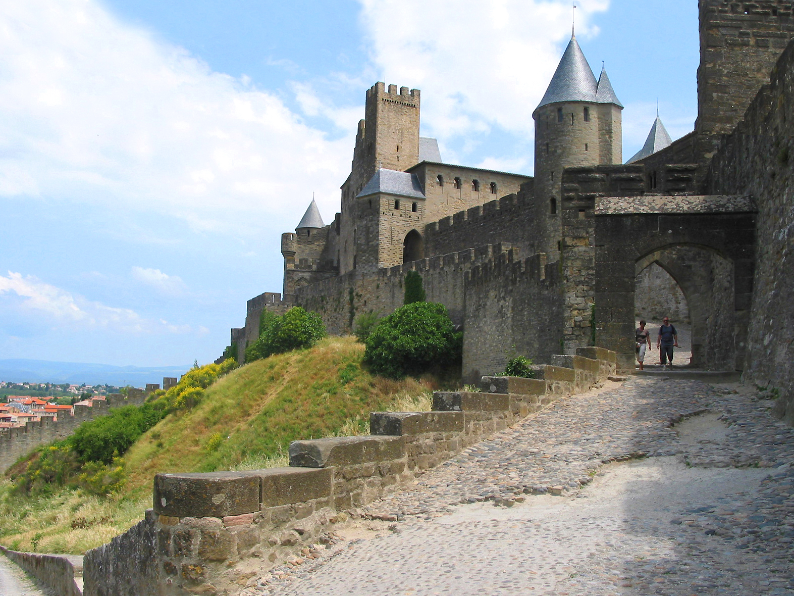 Carcassonne (Aude - France), the door of the Aude, the castle of the count and the western walls of the medieval city.